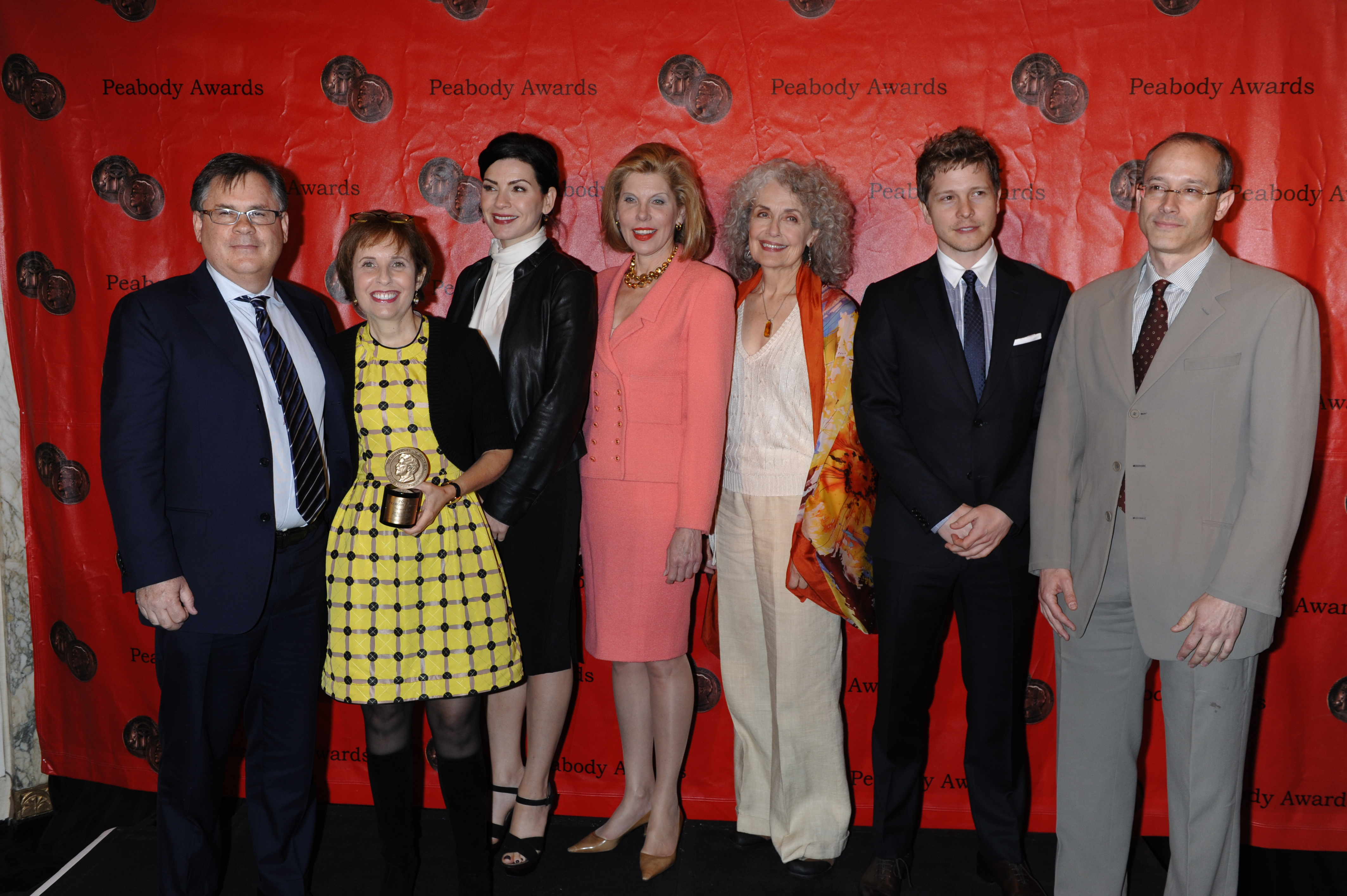 PHOTO CREDIT: ANDERS KRUSBERG / PEABODY AWARDS 70th Annual Peabody Awards Luncheon Waldorf=Astoria Hotel May 23, 2011